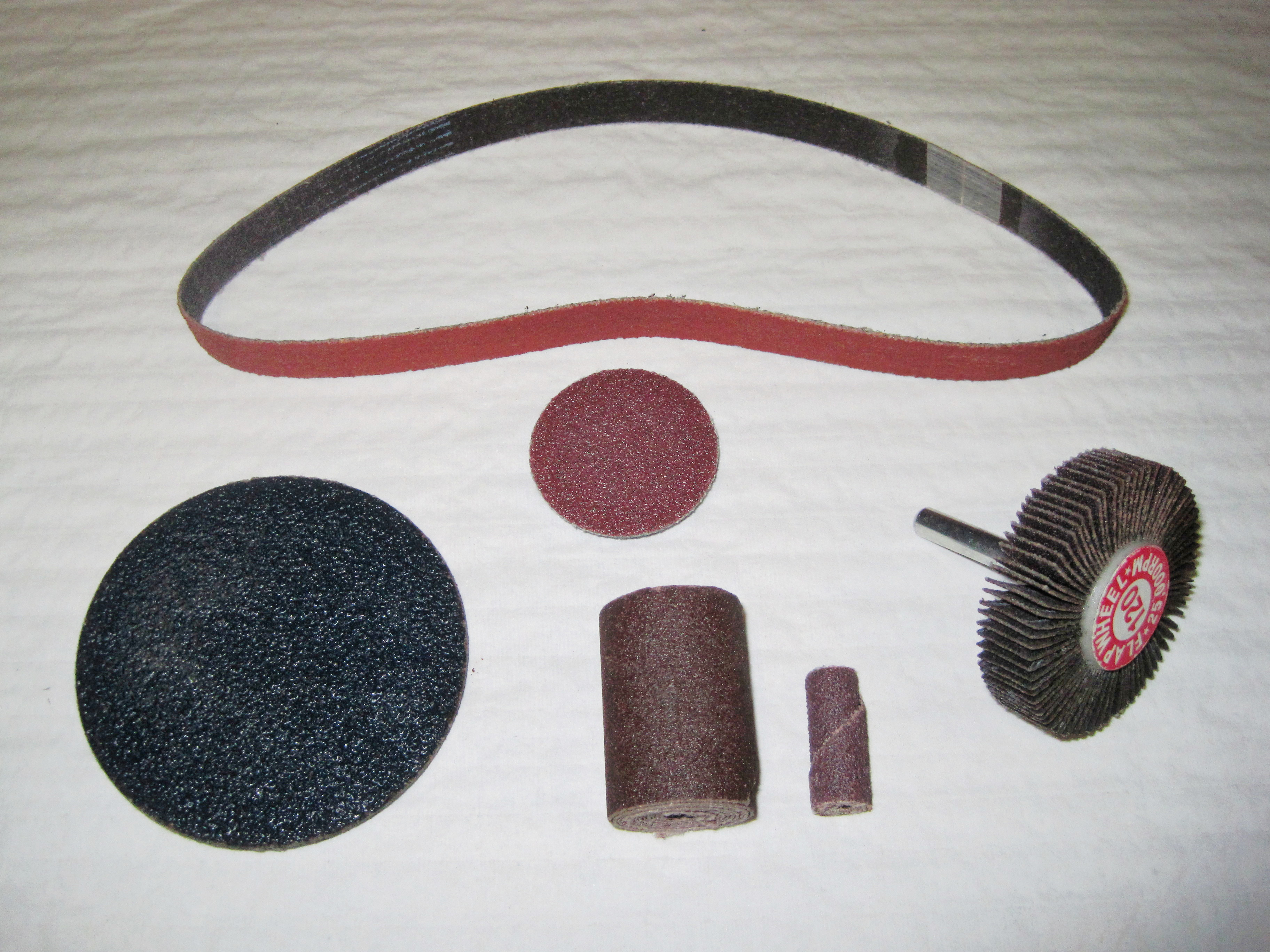 Assorted coated abrasives: fiber disk, cartage rolls, coated-abrasive belt, flap wheel